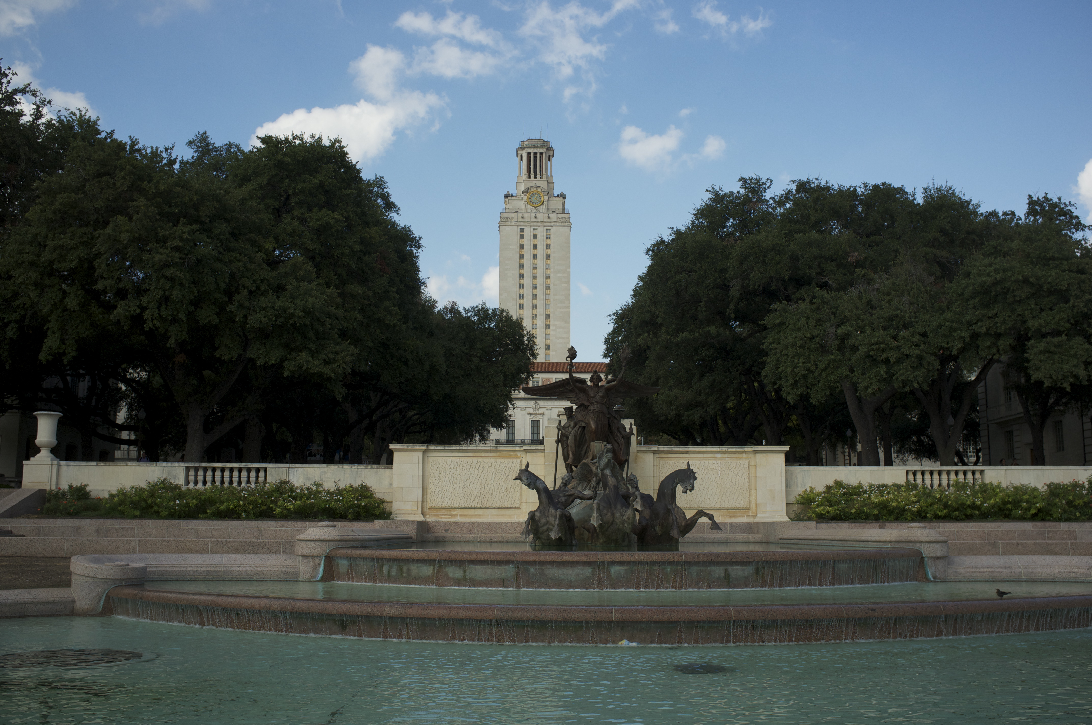 Texas University at Austin